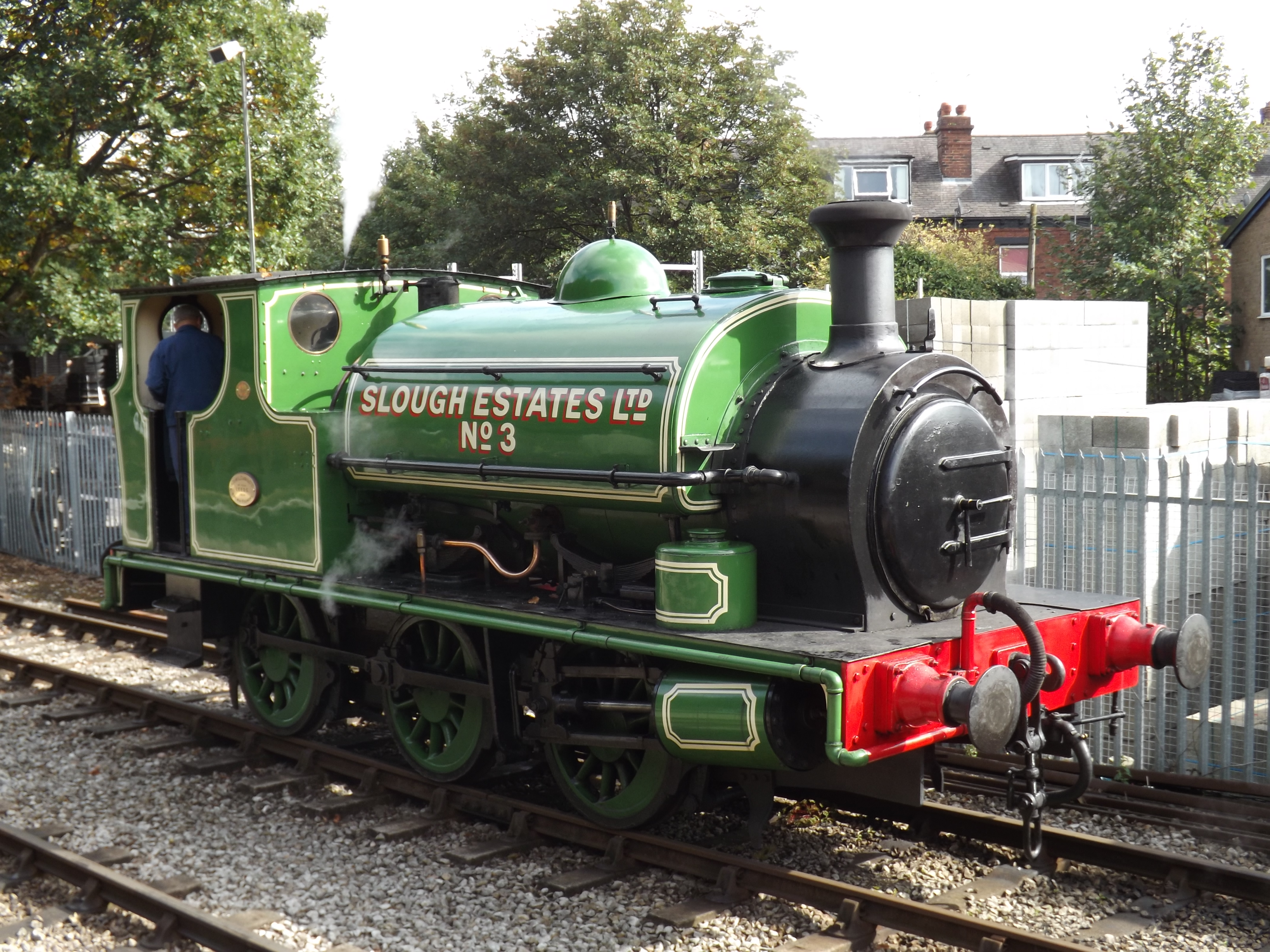 Hudswell Clarke 0-6-0ST No. 1544 'Slough Estates No. 3' at the Middleton Railway.